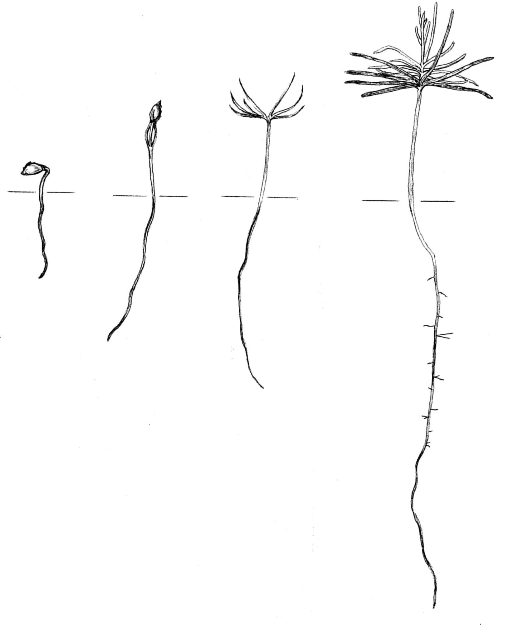 Douglas-fir. Drawing, from seed to seedling.